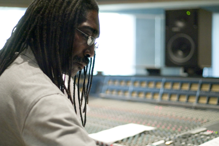 James P. Nichols, Music Recording Engineer for Ken Burns' "World War II" PBS